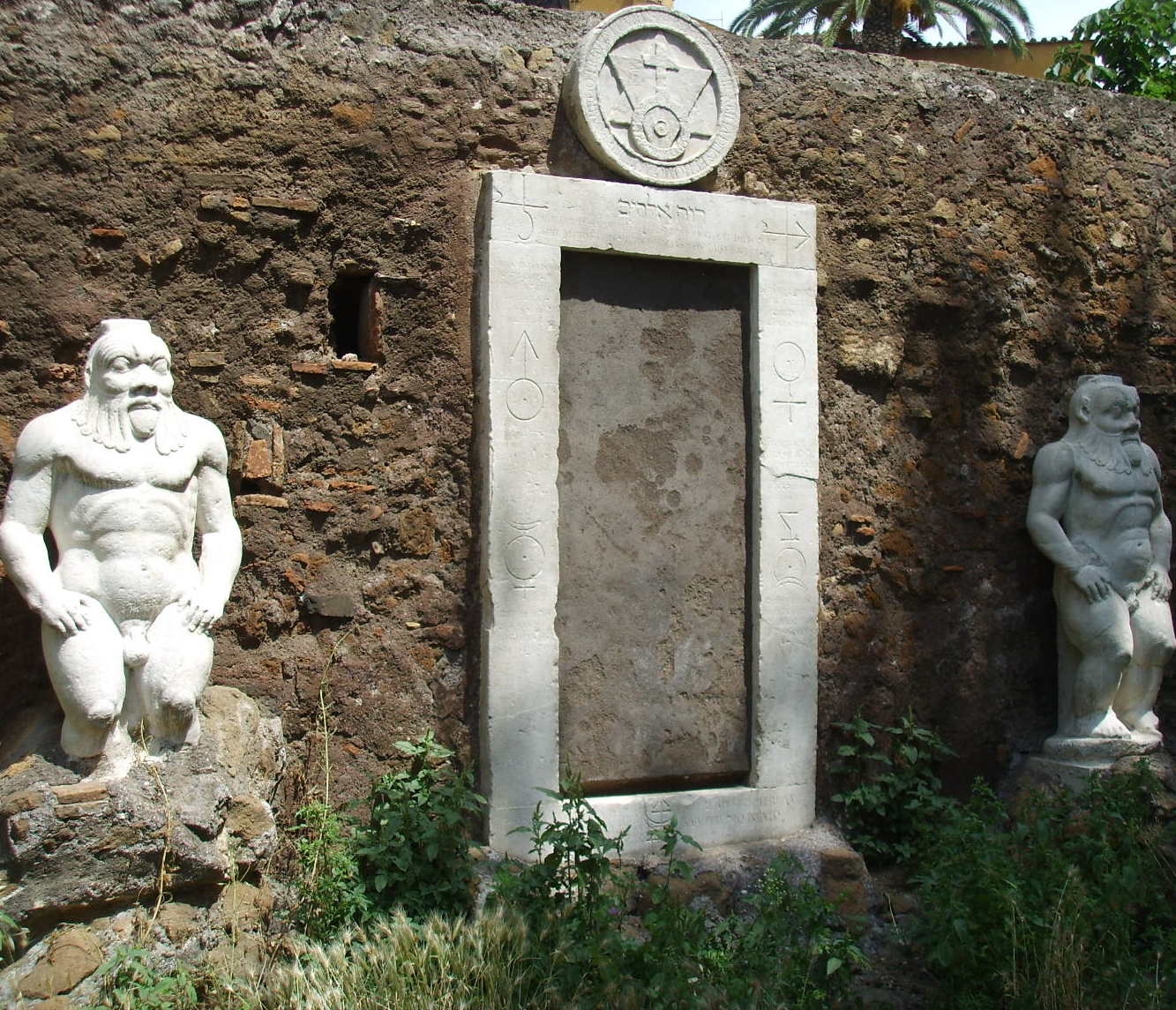 Magic gate (Porta magica) in Piazza Vittorio Emanuele, in Rome, Italy